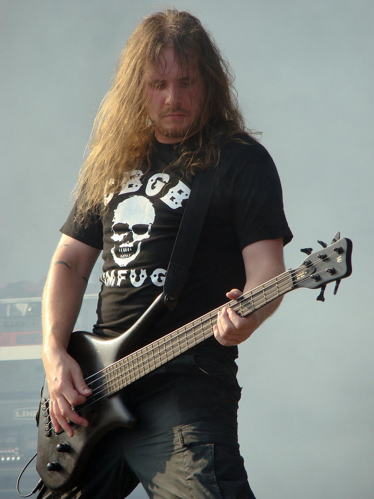 Bassist Dick Lövgren from the Swedish band Meshuggah performing on a live show with Meshuggah in Bolzano, Italy - June 29, 2008.